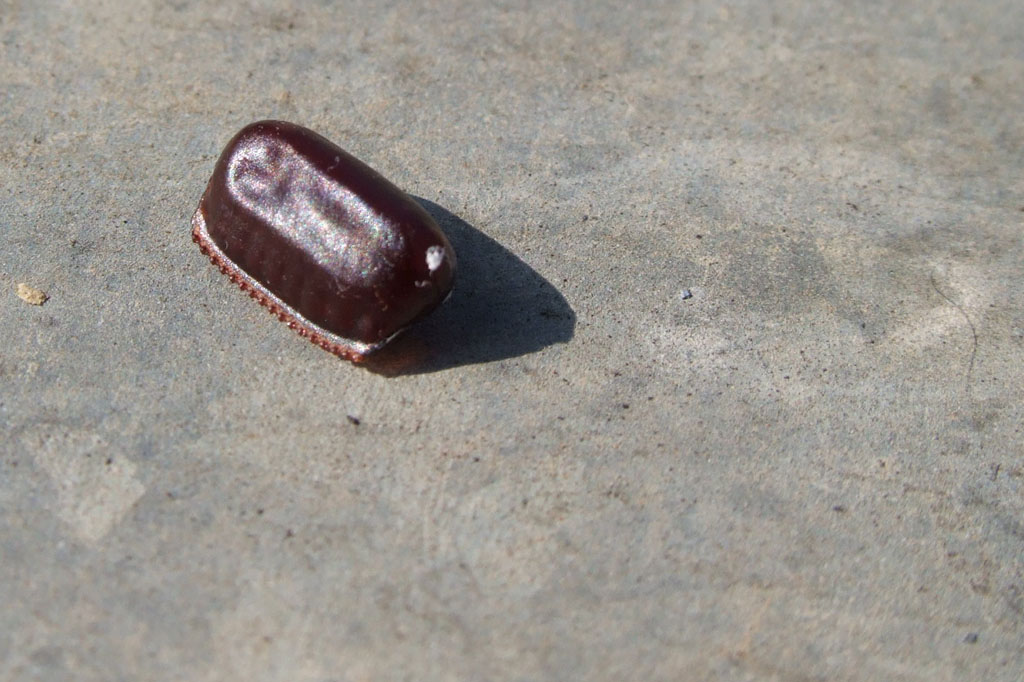 Periplaneta americana, American cockroach, Egg capsule